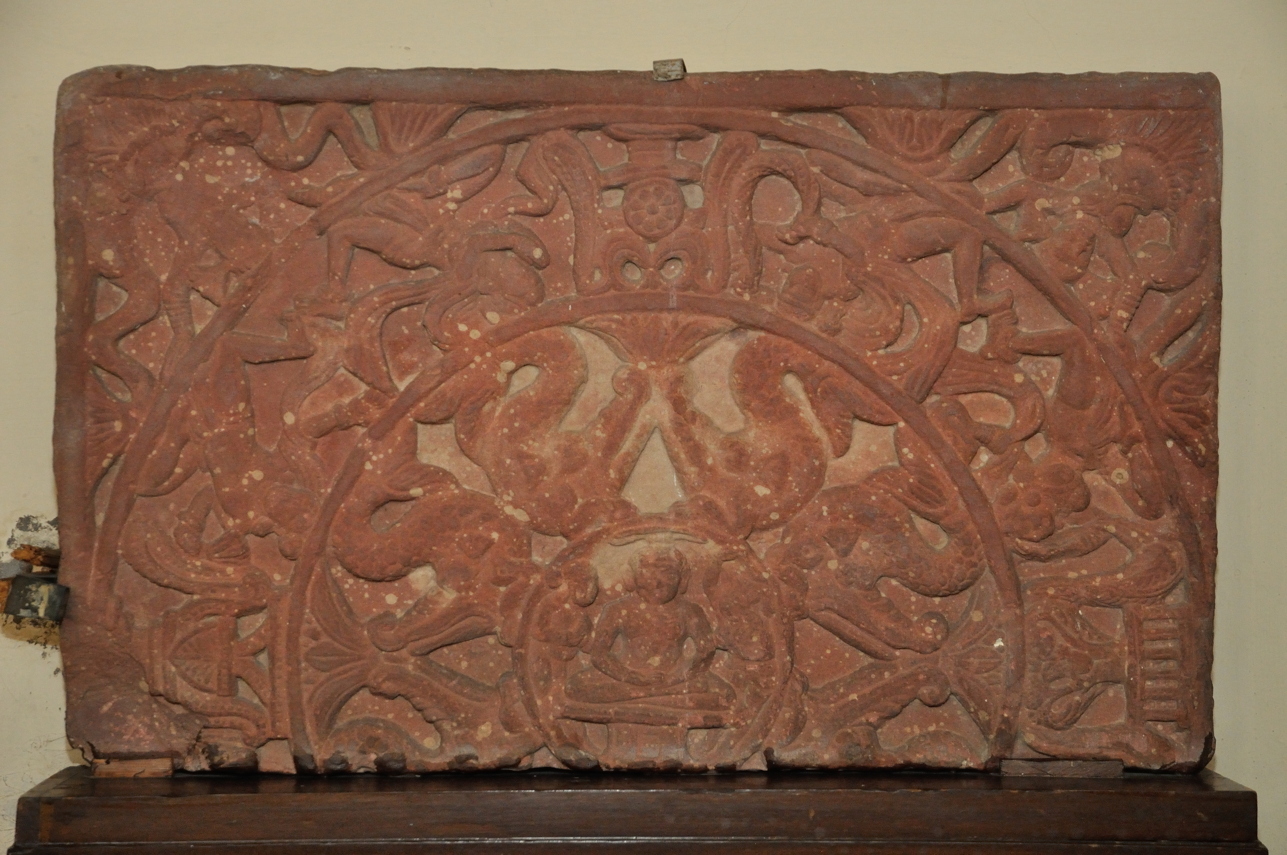 This artefact resides at the Government Museum, (hi: Rashtriya Sangrahalaya) formerly The Curzon Museum of Archaeology, Museum Road or Murari Lal Rajpal road, Dampier Nagar, Mathura, Uttar Pradesh, India. This museum is administrating by the State Government of Uttar Pradesh of India.